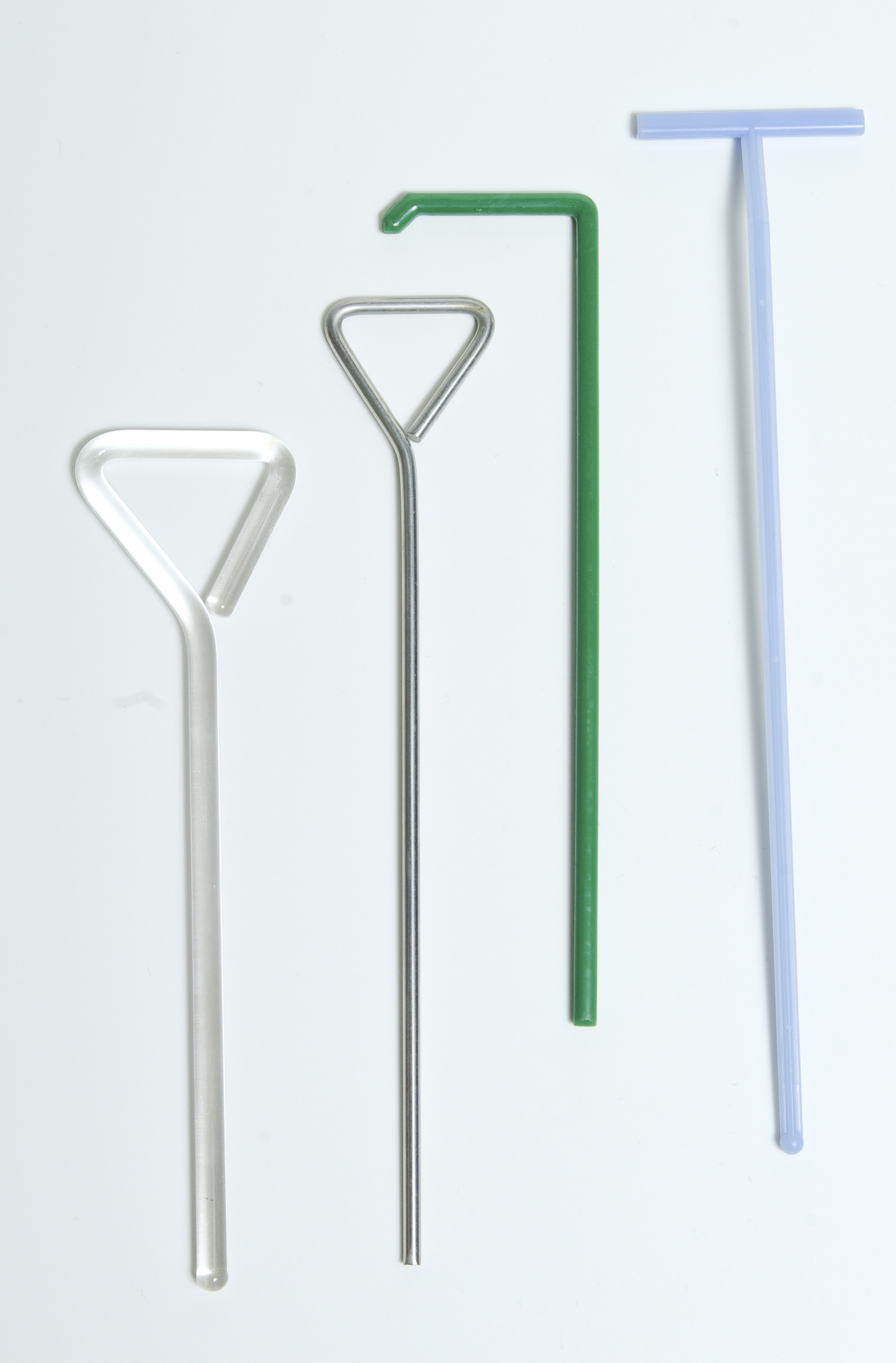 Set of plate spreaders (Drigalski's spatulas).